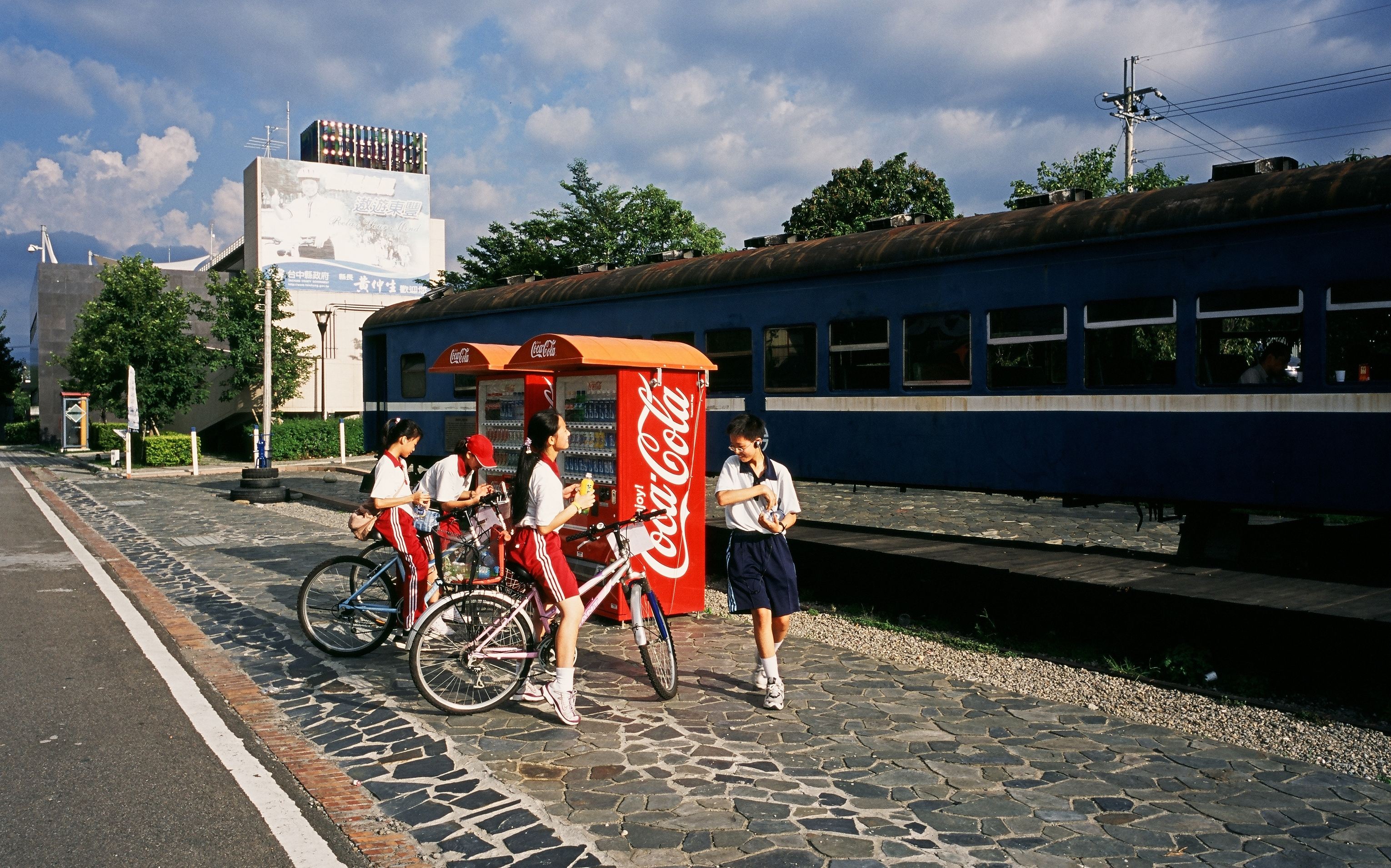 Students at the Zero-mark Platform, Shihkang Station, Taiwan Railway Administration.